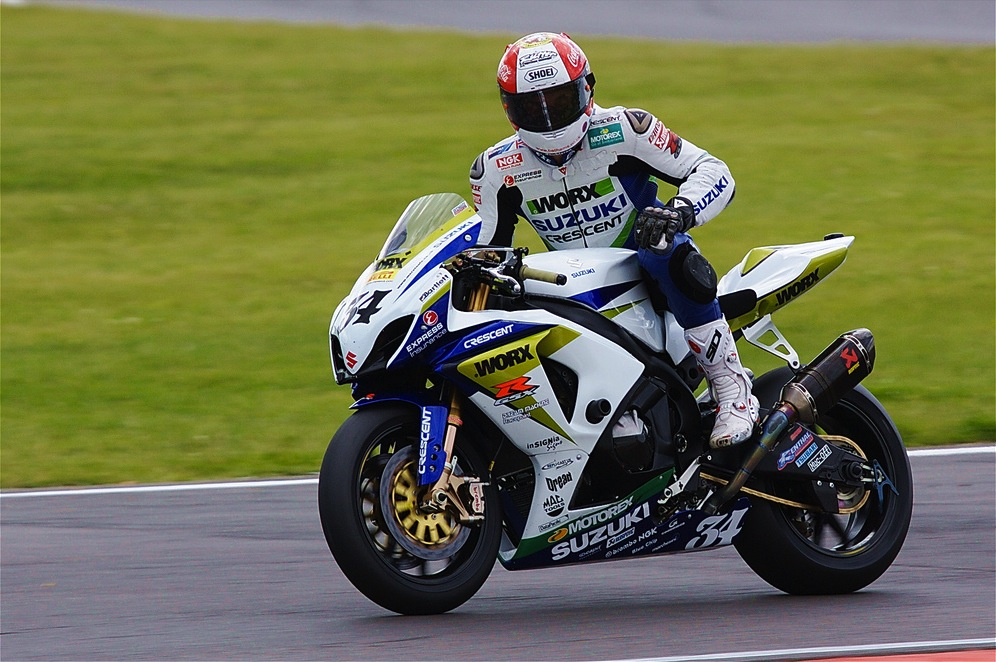 Motorcycle racer Michael Rutter riding a Crescent Suzuki during the British Superbikes at Snetterton 2009